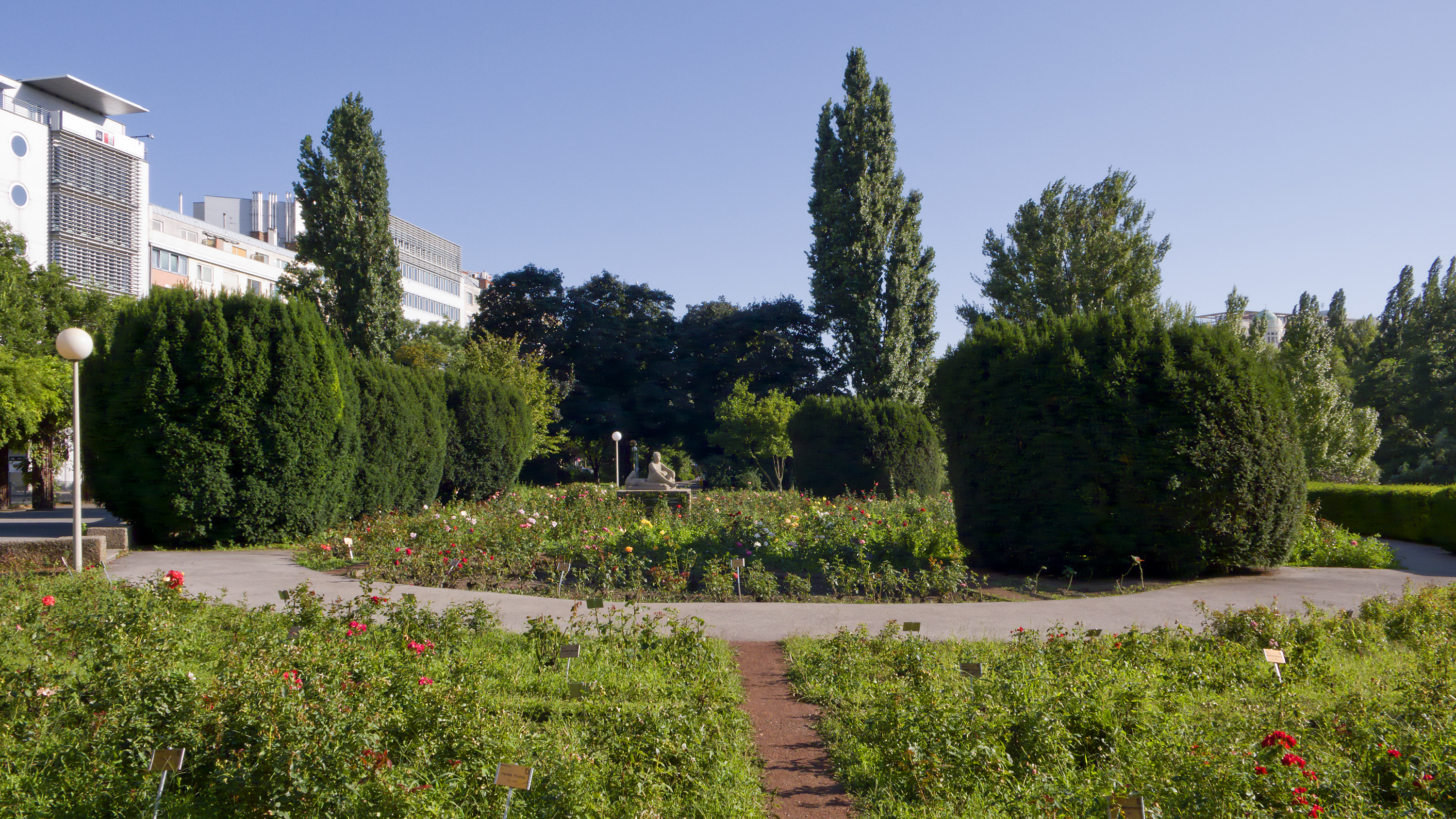 Public park Wettsteinpark in Vienna Leopoldstadt